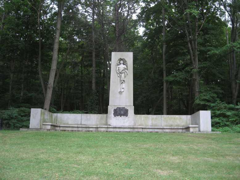 Francis Parkman Memorial, Jamaica Plain, Massachusetts. By sculptor Daniel Chester French.